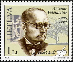 Stamps of Lithuania, 2006